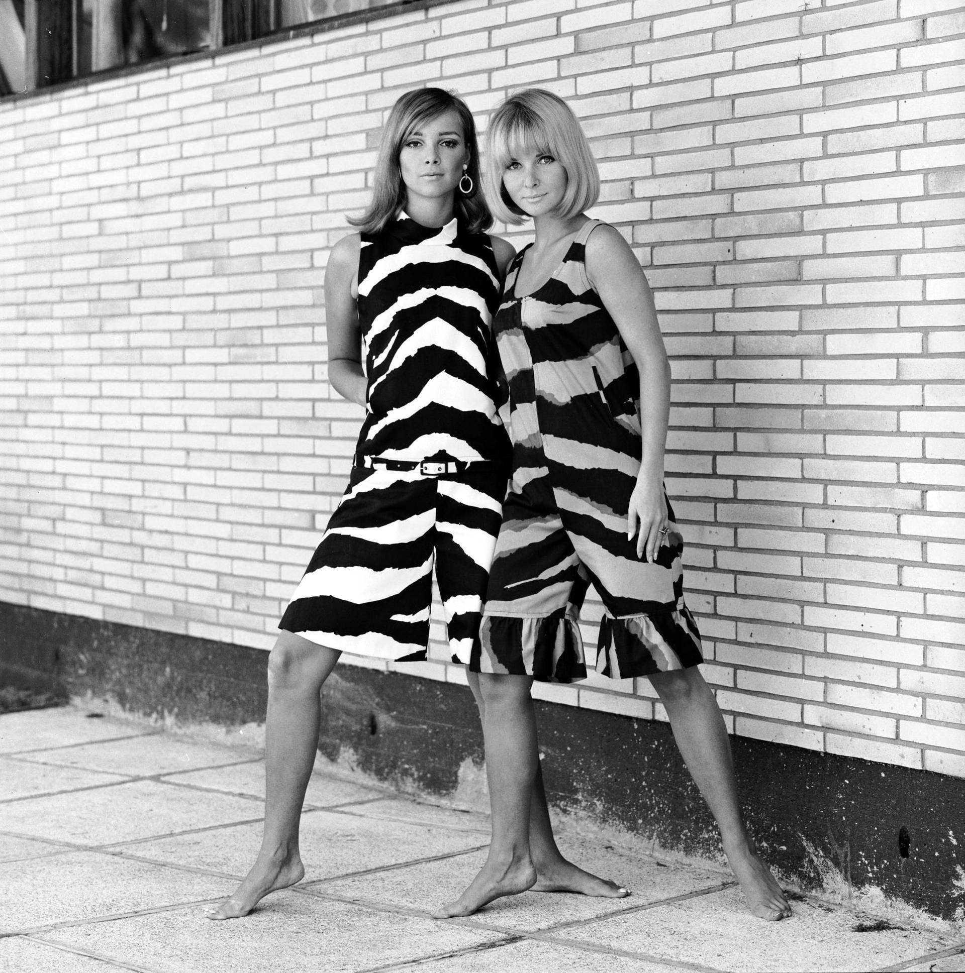 Photograph of two models, Pia Christiansen ja Marjatta Svennevig, posing in Finn-Flare clothes.